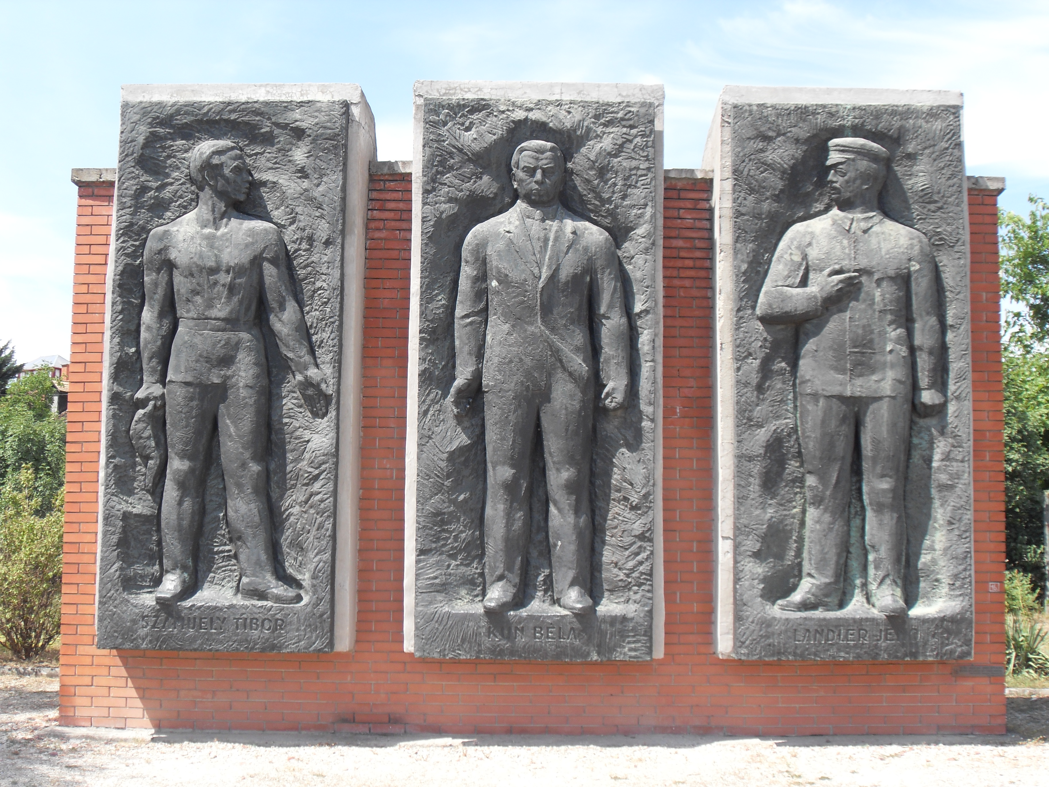 Béla Kun, Jenő Landler and Tibor Szamuely Memorial in the Memento Park. Author: Olcsai-Kiss Zoltán, Herczeg Klára, Farkas Aladár. Year: 1967.